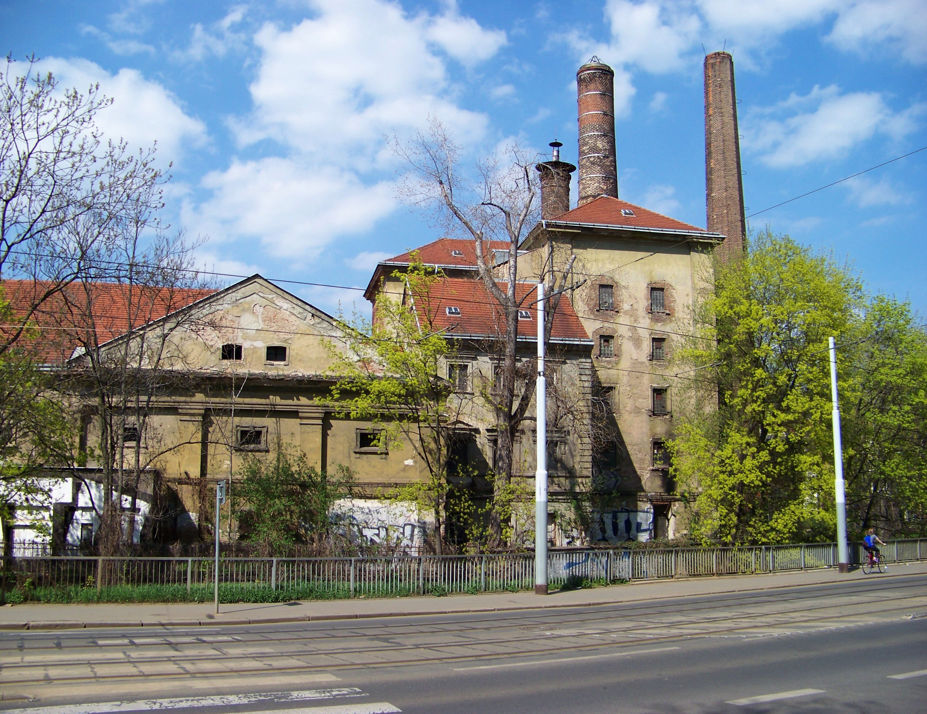 Prague-Nusle, the Czech Republic. A brewery.